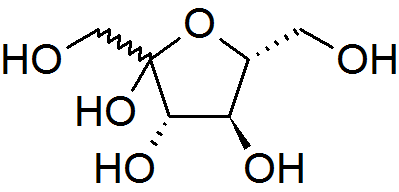 The furanose form of D-fructose: this diagram can represent either the α-anomer or the β-anomer.